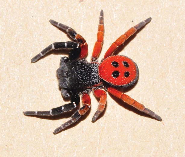 Eresus hermani male (Farkas-hegy, Budaörs, Hungary)